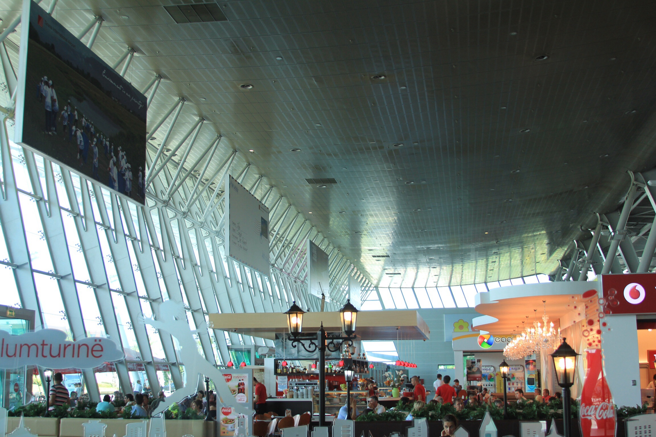 Interior of TIA airport terminal